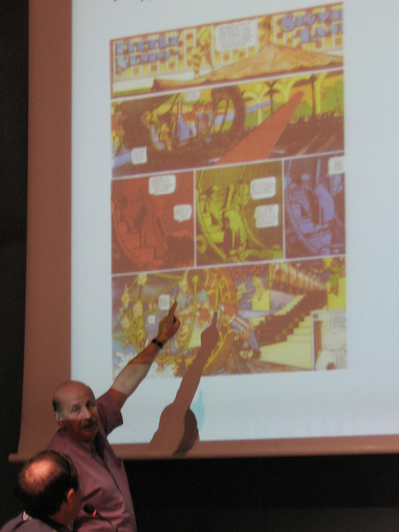 Claude Moliterni explain Little Nemo during Torino Comics 2006.